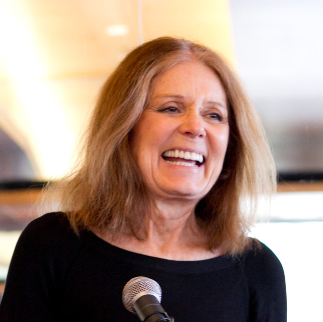 Gloria Steinem crop of pic from the Jewish Women's Archive Photo: Joan Roth